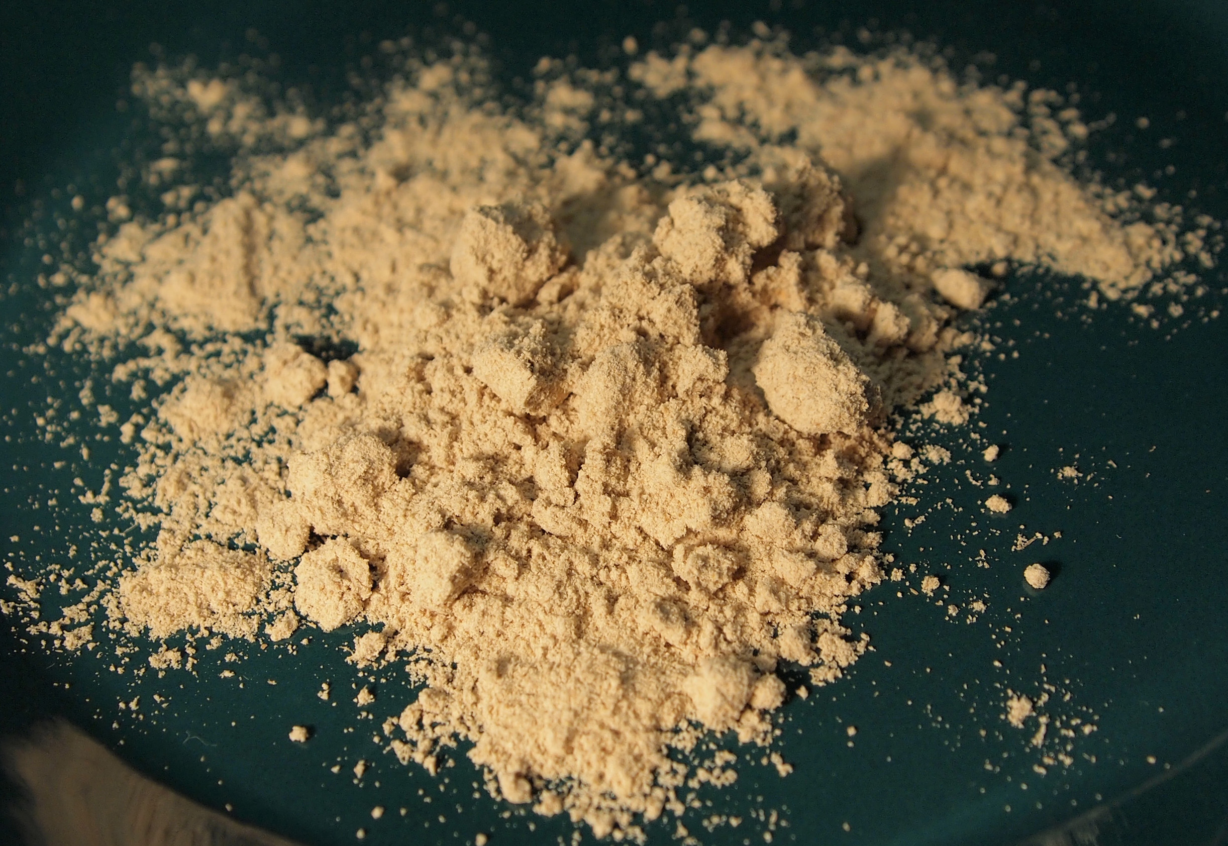 Kama made of oat. The brand is "Hirvelän Uunitalkkuna".